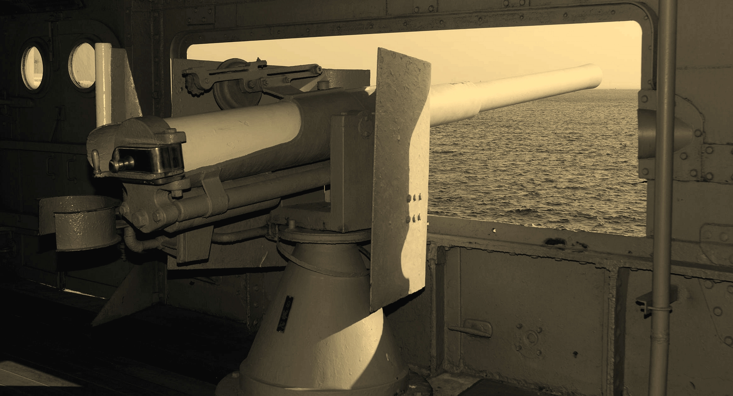 Type 41 3-inch (76.2 cm)/40-caliber